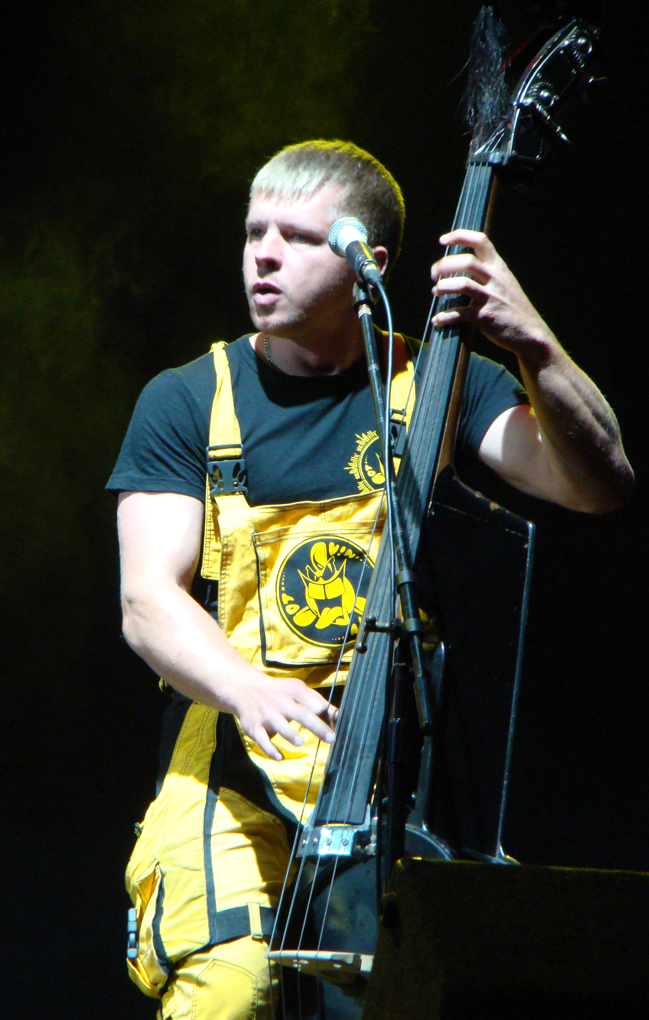 Volodymyr Zahynej, contrabassist of the band "Ot Vinta!" (during the Pidkamin festival 2011).